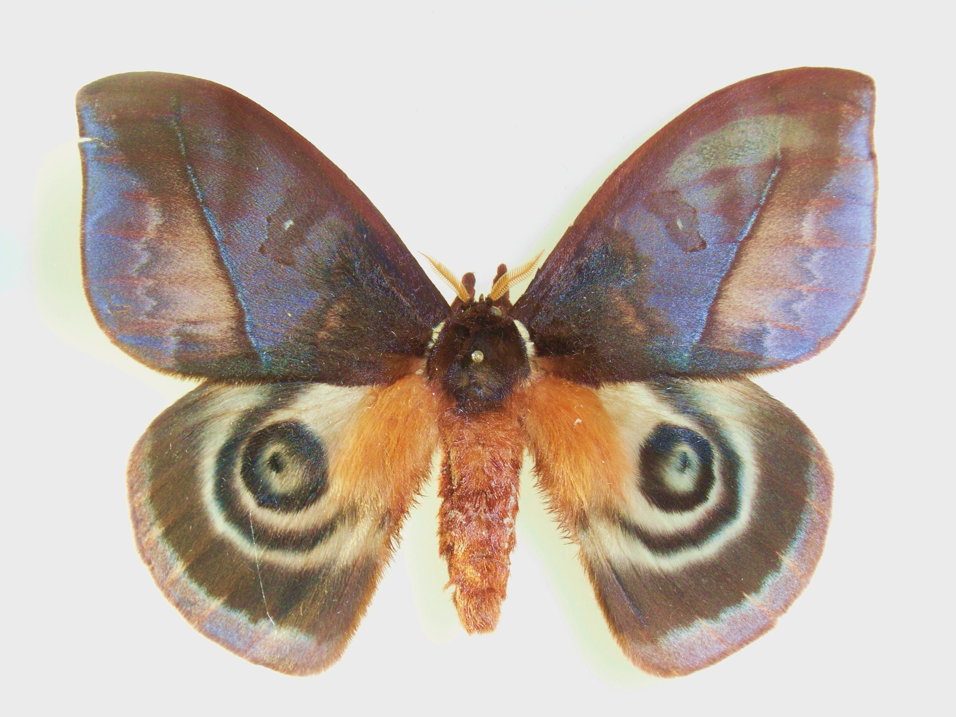 Automeris larra Venezuela Ex coll. Felix Stumpe